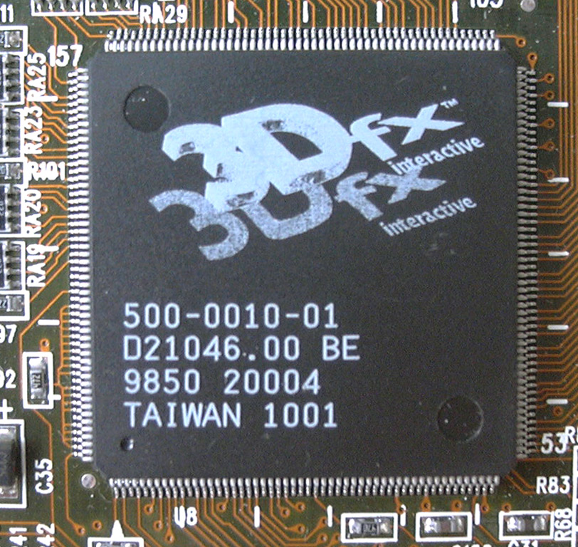 A Voodoo2 chip. Taken by me on March 21st 2006.